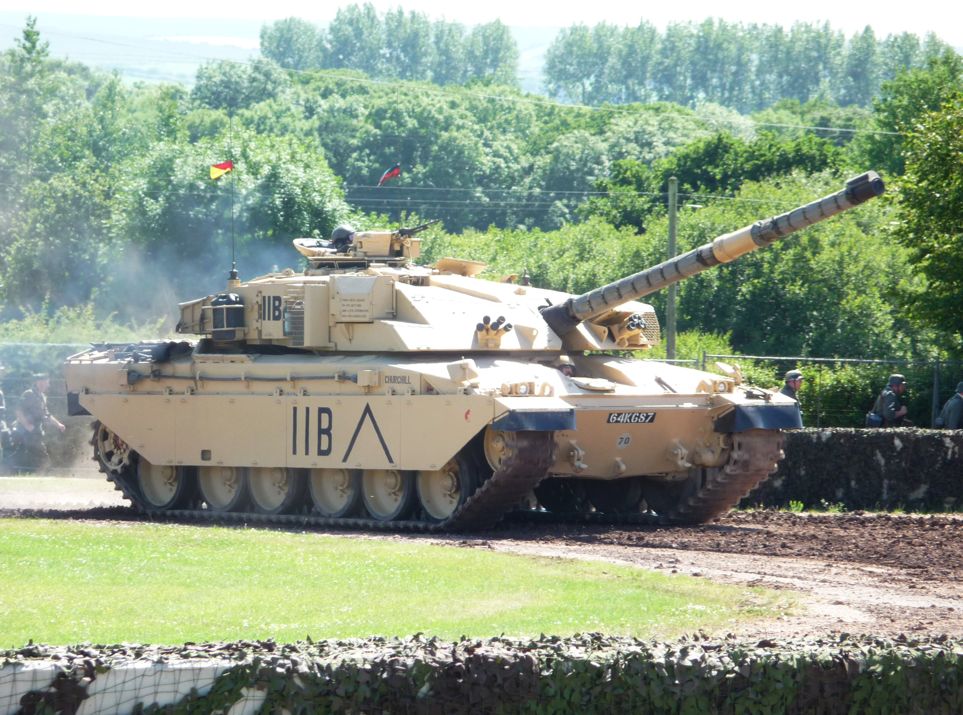 British Challenger 1.